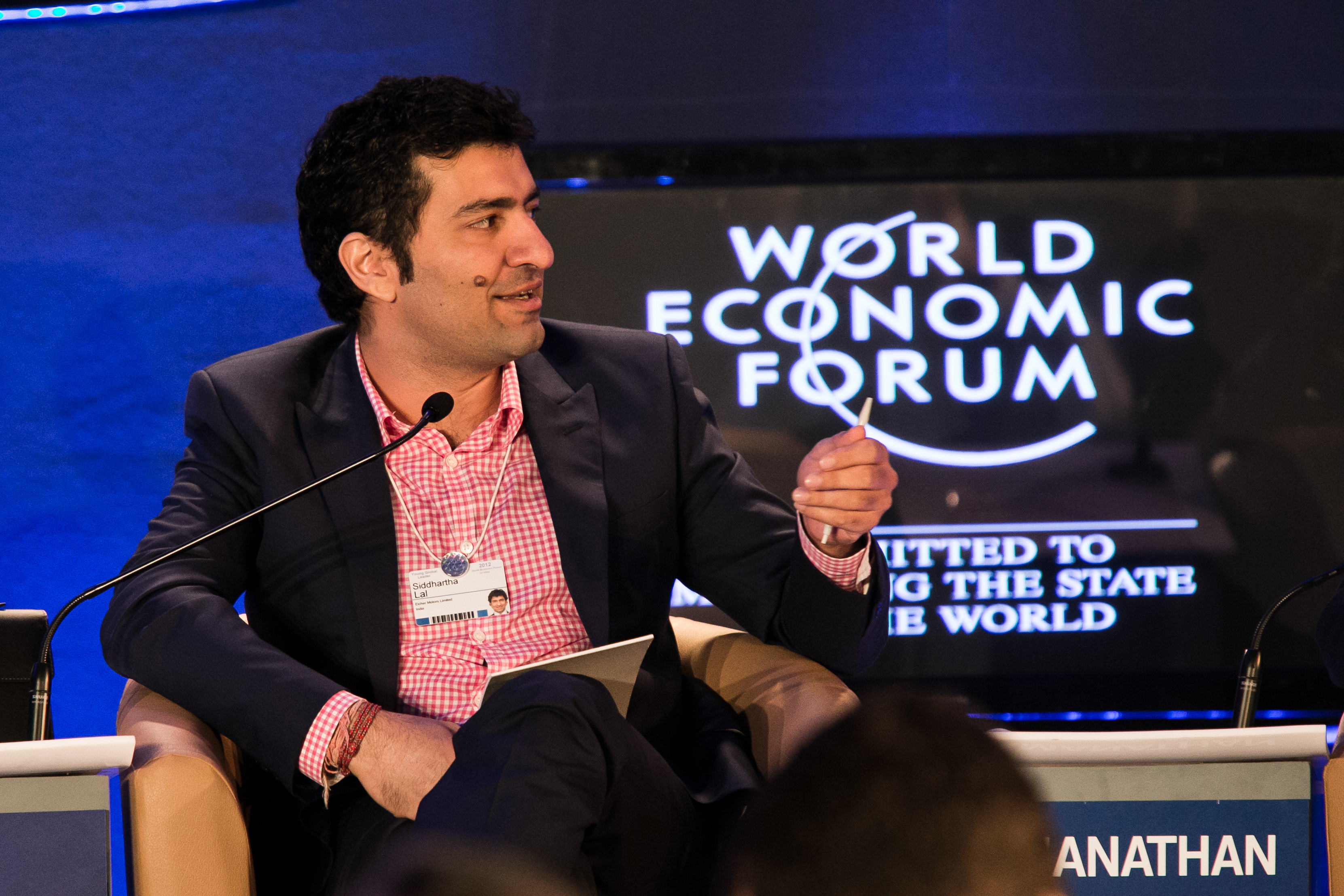 Siddhartha Lal, Managing Director and Chief Executive Officer, Eicher Motors, India; Co-Chair of the World Economic Forum on India; Young Global Leader; Global Agenda Council on Personal Transportation Systems at the World Economic Forum on India 2012